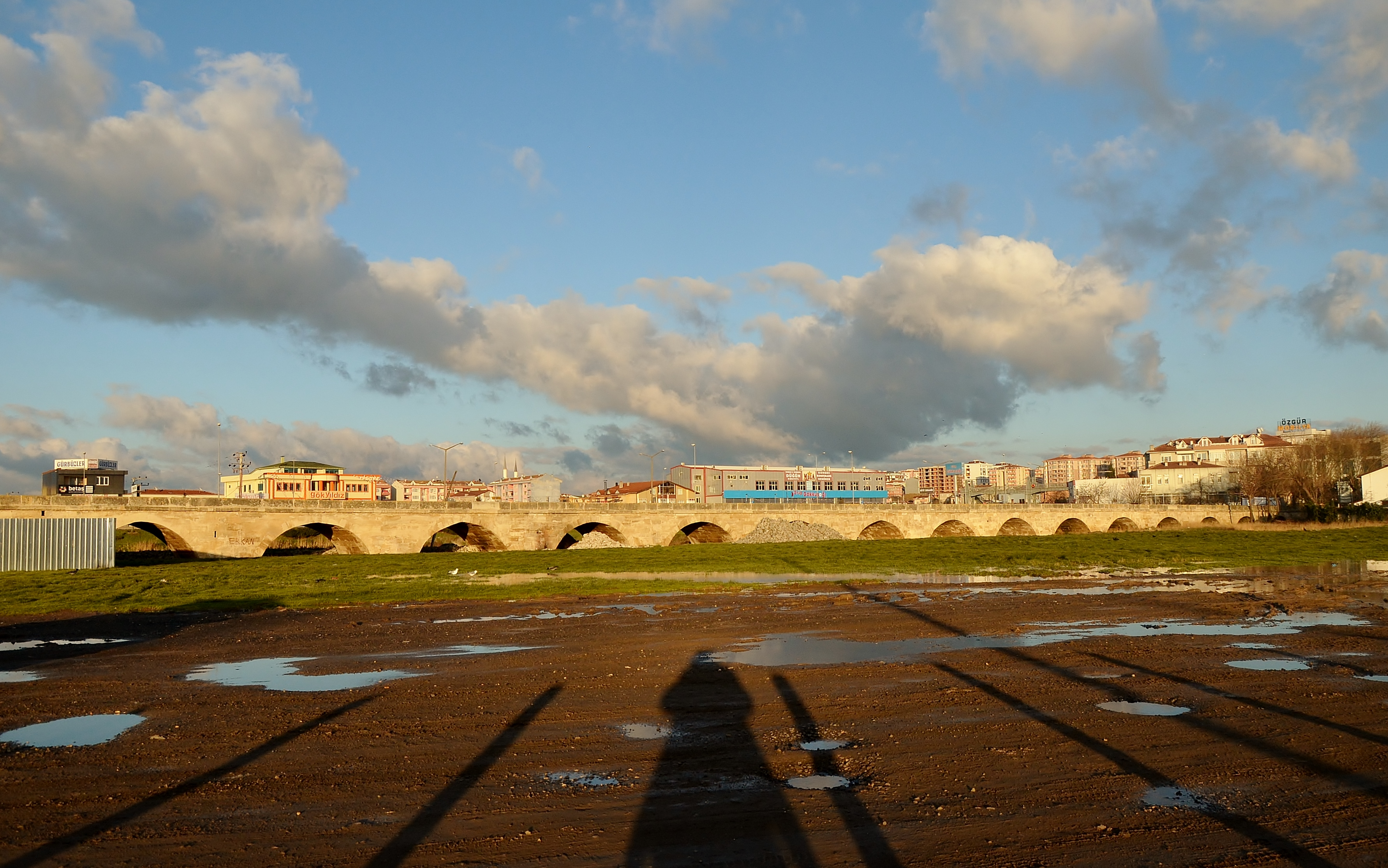 Mimar Sinan Bridge in Silivri, Istanbul Turkey